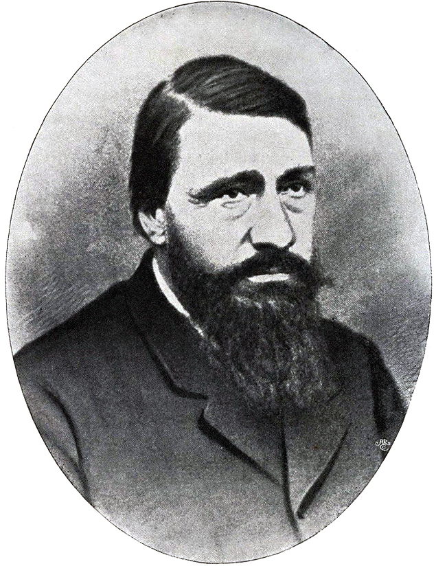 Paul Kruger, the future President of the South African Republic, around 1852, when he was a Field Cornet.